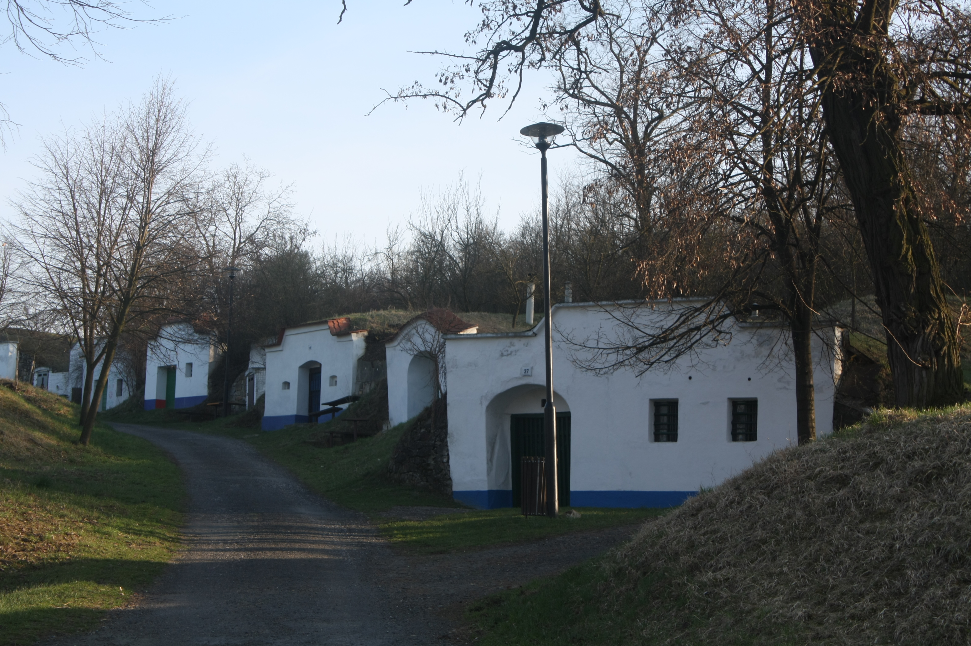 Petrov (Hodonín district, Czech Republic) - Plže wine cellars